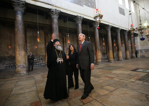 President George W. Bush listens as His Beatitude Theophilus III, Patriarch of the Greek Orthodox Patriarchate of Jerusalem, speaks during a visit to the Church of Nativity Thursday, Jan. 10, 2008, in Bethlehem. With them is Khouloud Daibes, Minister of Tourism. White House photo by Eric Draper